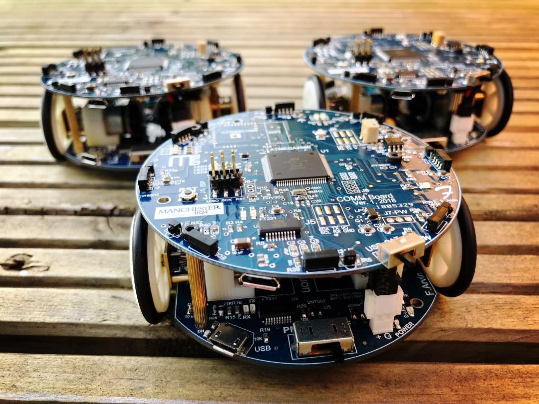 Mona robot